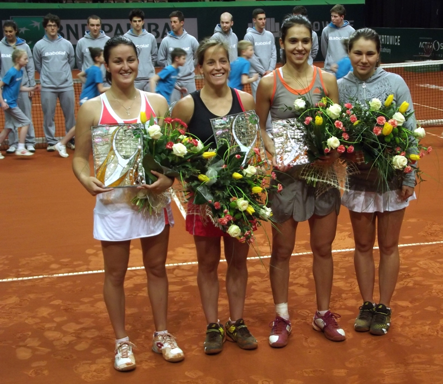 Picture taken during the women's tennis tournament BNP Paribas Open Katowice, Spodek in Katowice.From left to right: Lara Arruabarrena, Lourdes Domínguez Lino, Ioana Raluca Olaru and Valeria Solovyeva